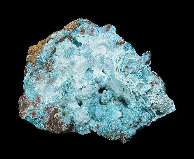 Zincowoodwardite, Serpierite Locality: Christiana Mine, Kamariza Mines, Agios Konstantinos [St Constantine], Lavrion District Mines, Lavrion District, Attikí Prefecture, Greece Size: 4.3 cm x 3.4 cm x 1.2 cm Zincowoodwardite is a very rare zinc aluminum sulfate and is, as the name implies, the zinc analogue of woodwardite. The species was named about 20 years ago, and was first discovered at the Christiana Mine in the famous mining district of Lavrion, Greece. It's only found in about nine places in the world. This piece is from the type locality, and features gorgeous radial blue groups associated with serpierite on oxidized matrix. This piece is obviously a micro specimen, and we've photographed it with a Canon MP-E 65 mm macro lens to better illustrate the quality. This piece is accompanied by a classic label from Josef Vajdak/Pequa Rare Minerals. You can read Joe's biography here